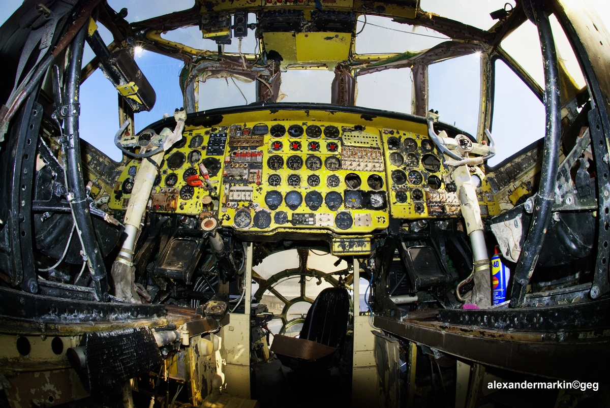 Cockpit. An-12 04red.